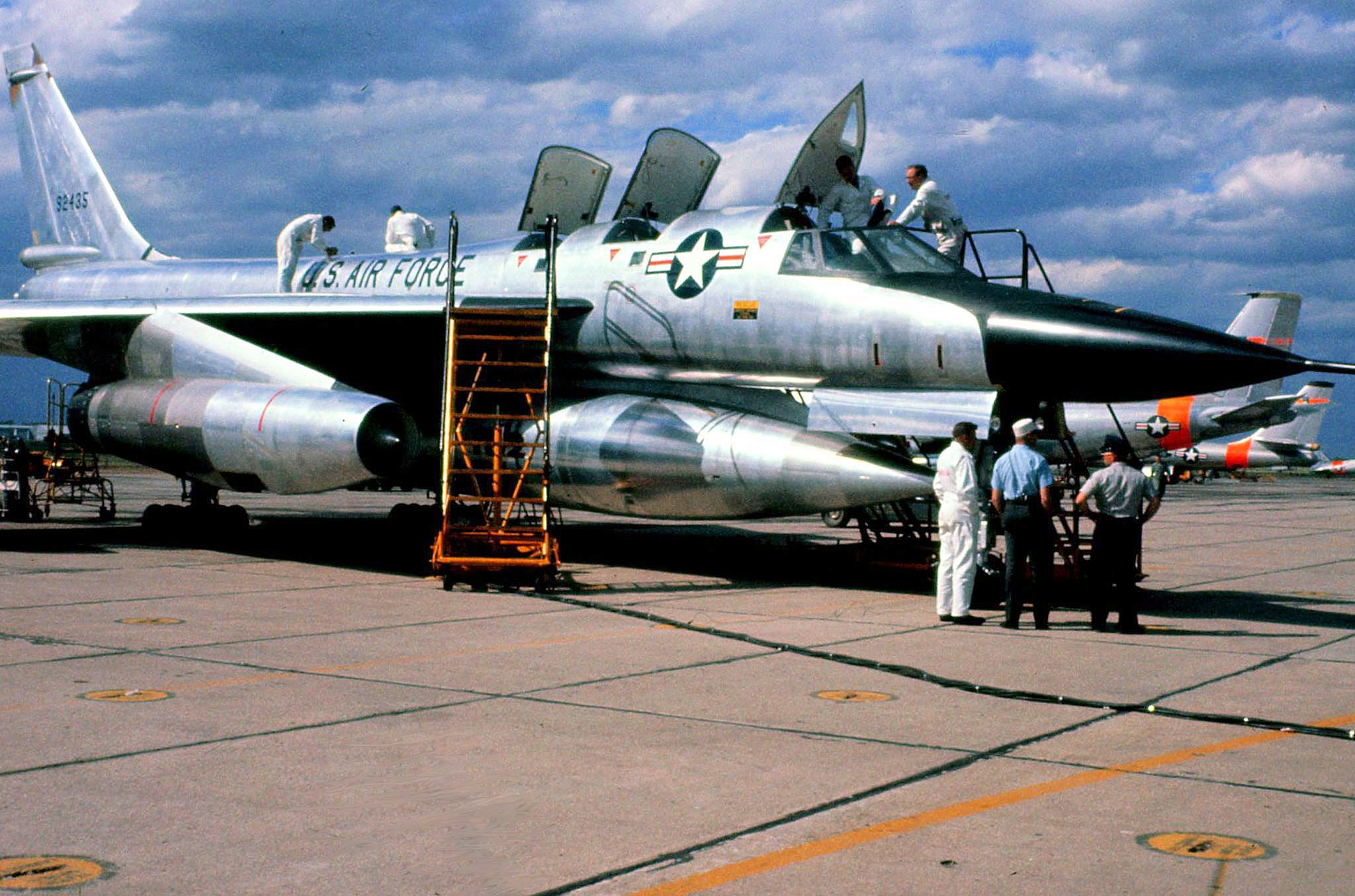 Convair B-58A Hustler 59-2435